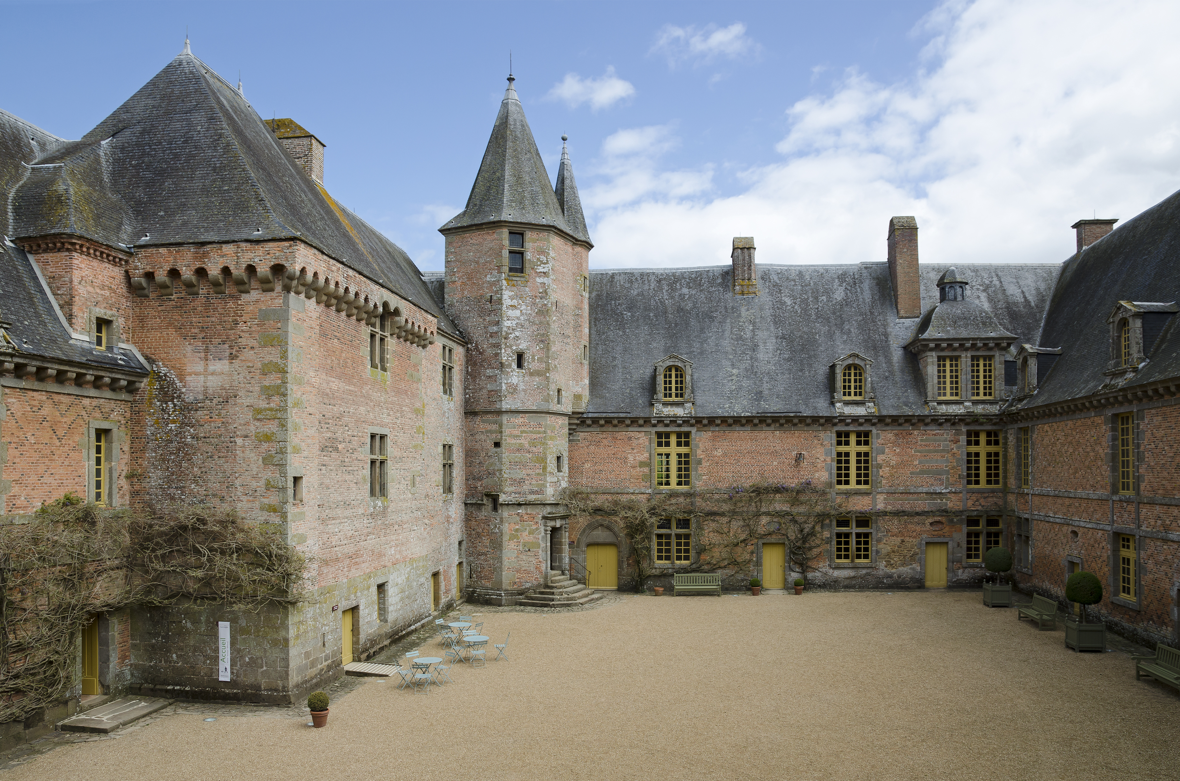 Courtyard of château de Carrouges, 2013.